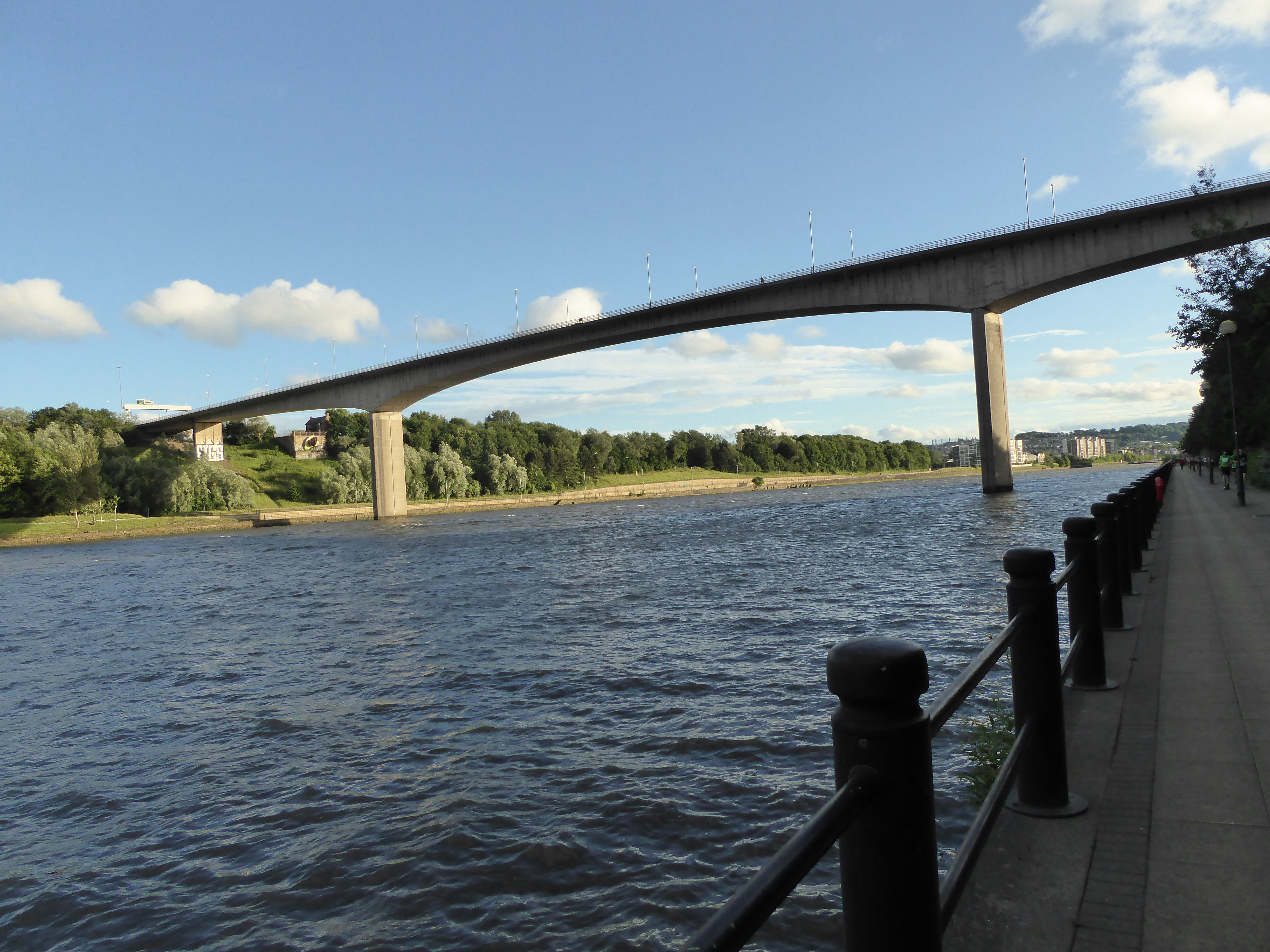 REdheugh Bridge, Newcastle upon Tyne, Tyne and Wear, England, July 2015